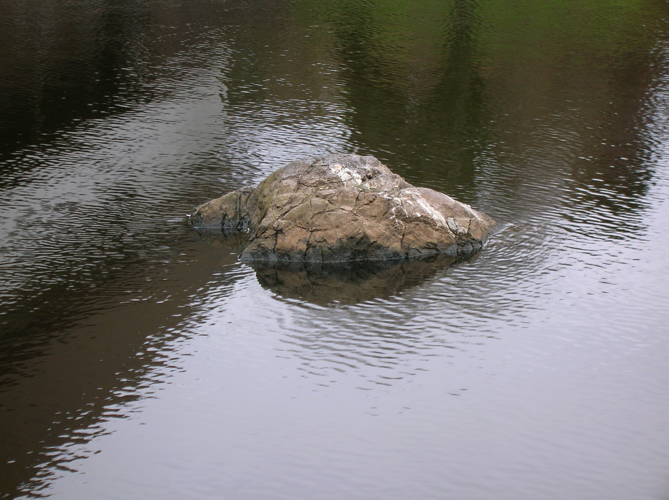 A close up view of the Granny stane in the River Irvine at Irvine, North Ayrshire, Scotland. Said to have been part of a stone circle